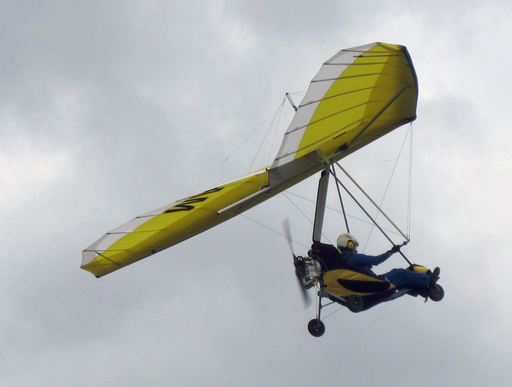 First recorded flight of G-LOAM, 2011.08.31